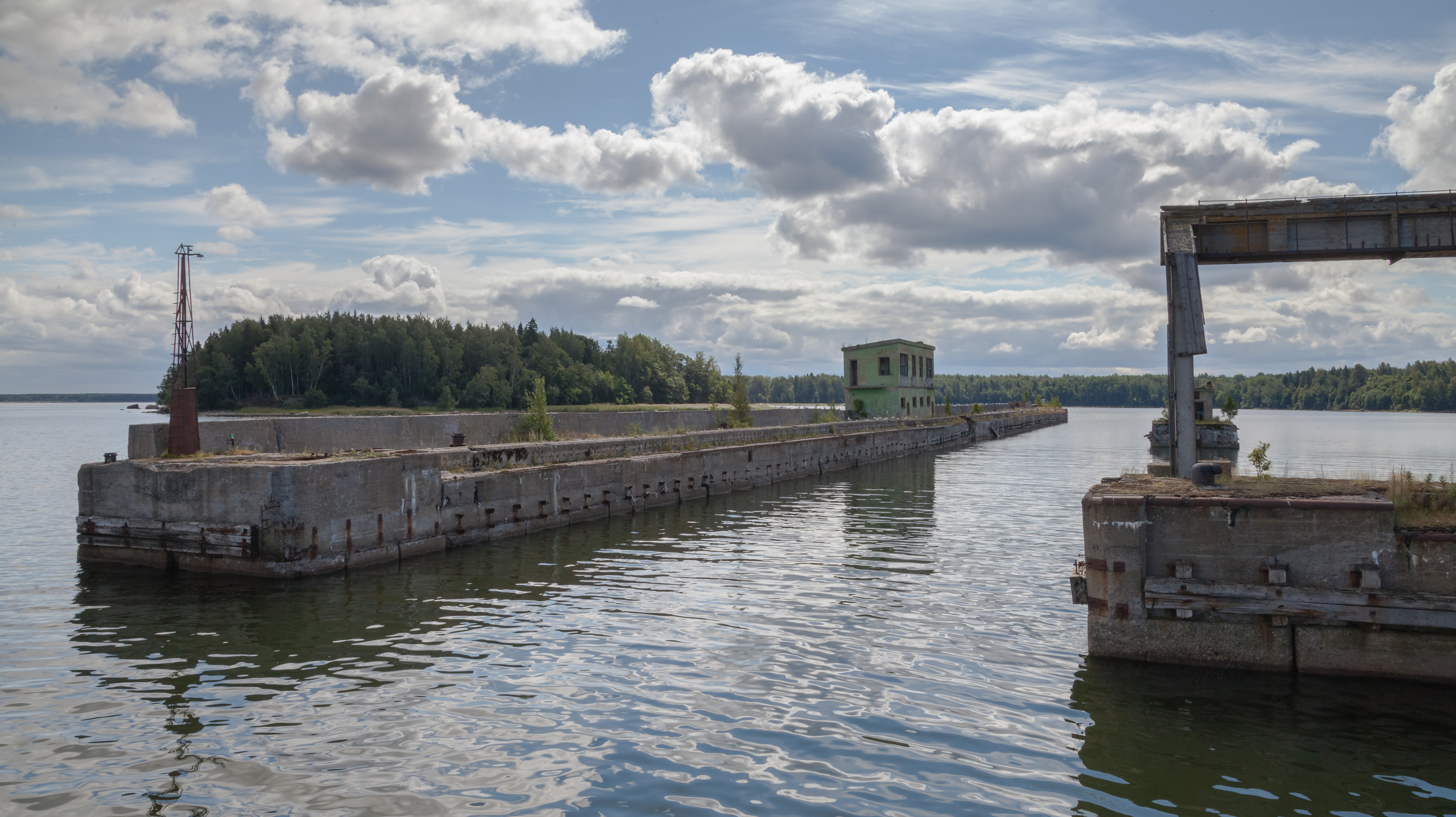 Former soviet submarine base, Lahemaa National Park, Estonia